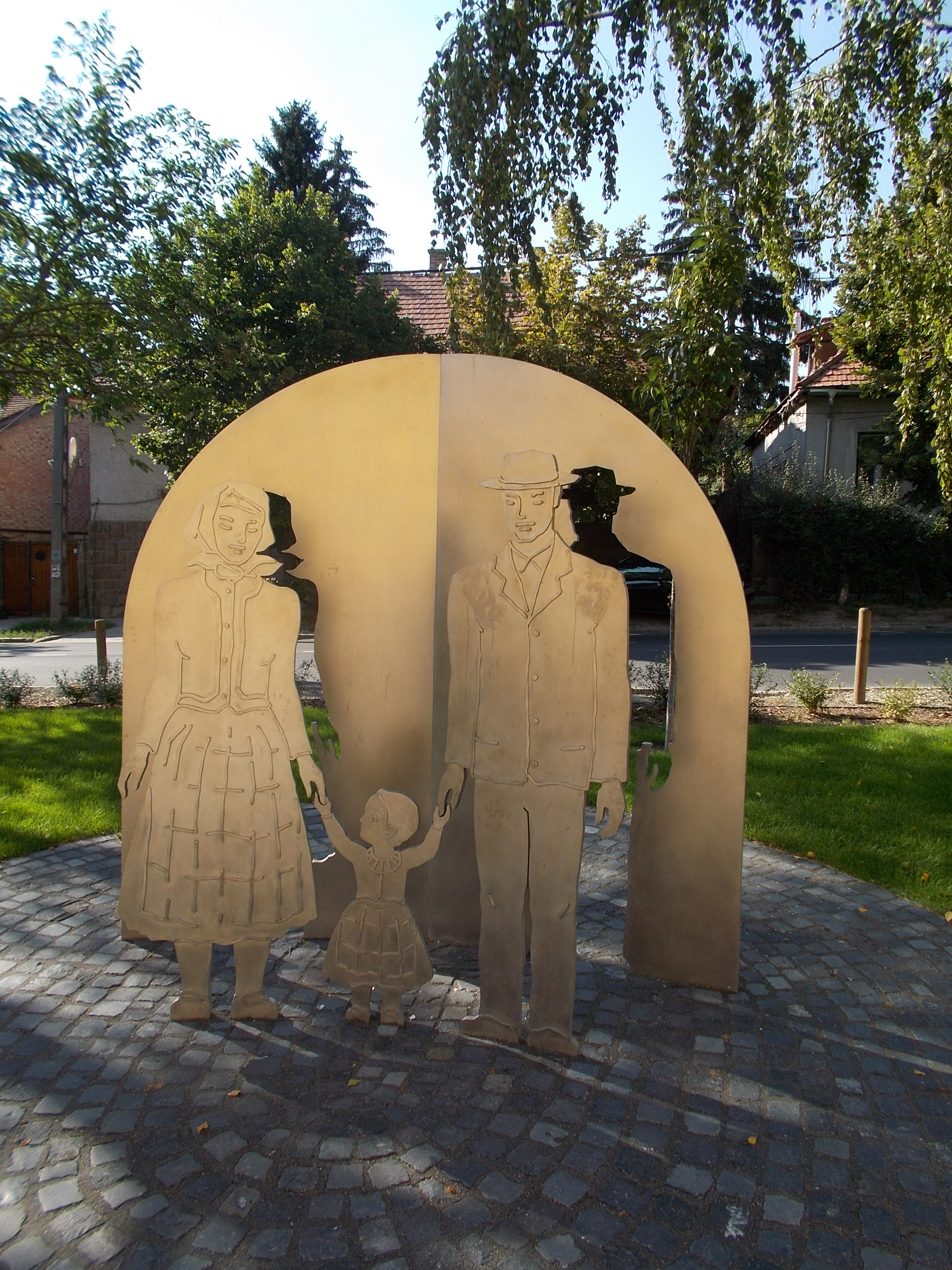 Remembered to Ancestors. Modern, steel and stone memorial. Historic Event related. Townscape significance. Anniversary. At the Our Lady of the Snow church. - Fő Street, Budakeszi, Pest County, Hungary.